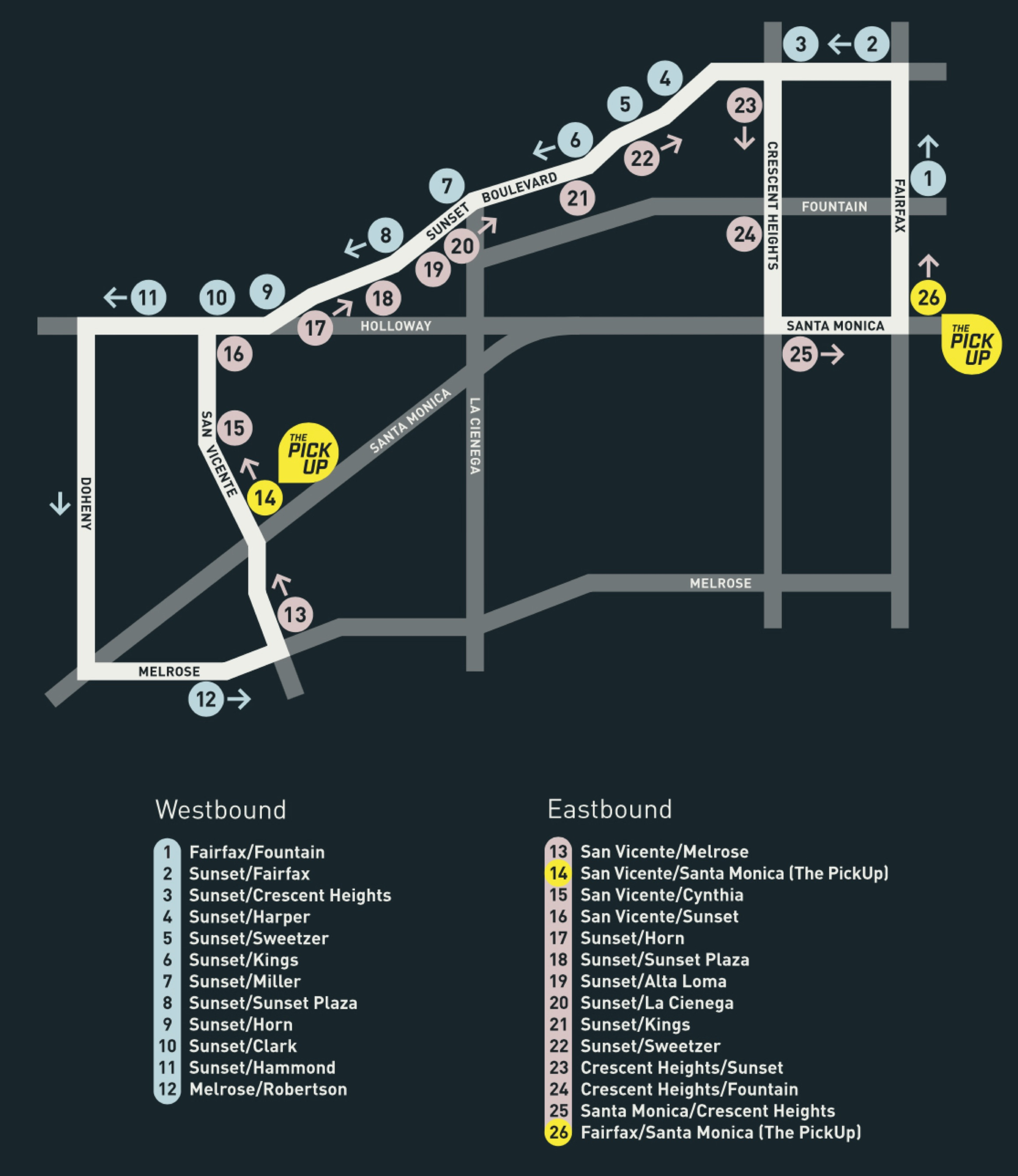 Route map showing all stops for the Sunset Trip shuttle.